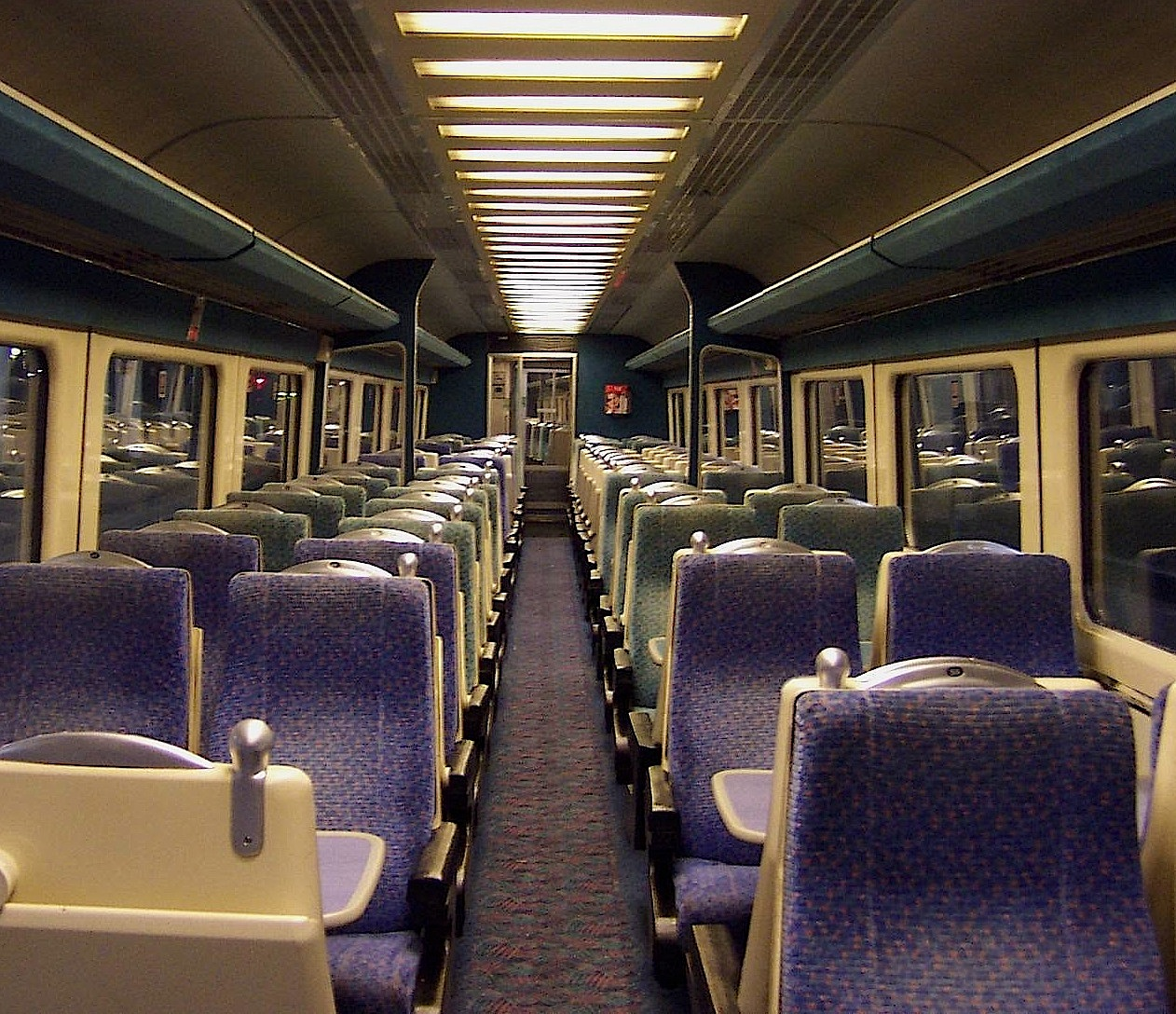 The refurbished Standard Class interior of a Virgin Trains West Coast Mark 3A TSO vehicle